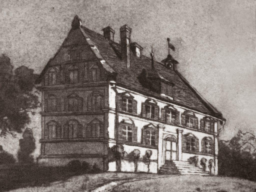 Freudental (Allensbach), Germany, painting of castle, photo 2011